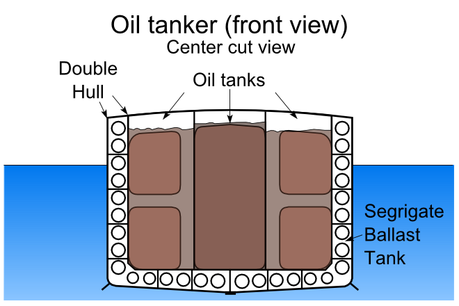 Oil tanker front center cut view